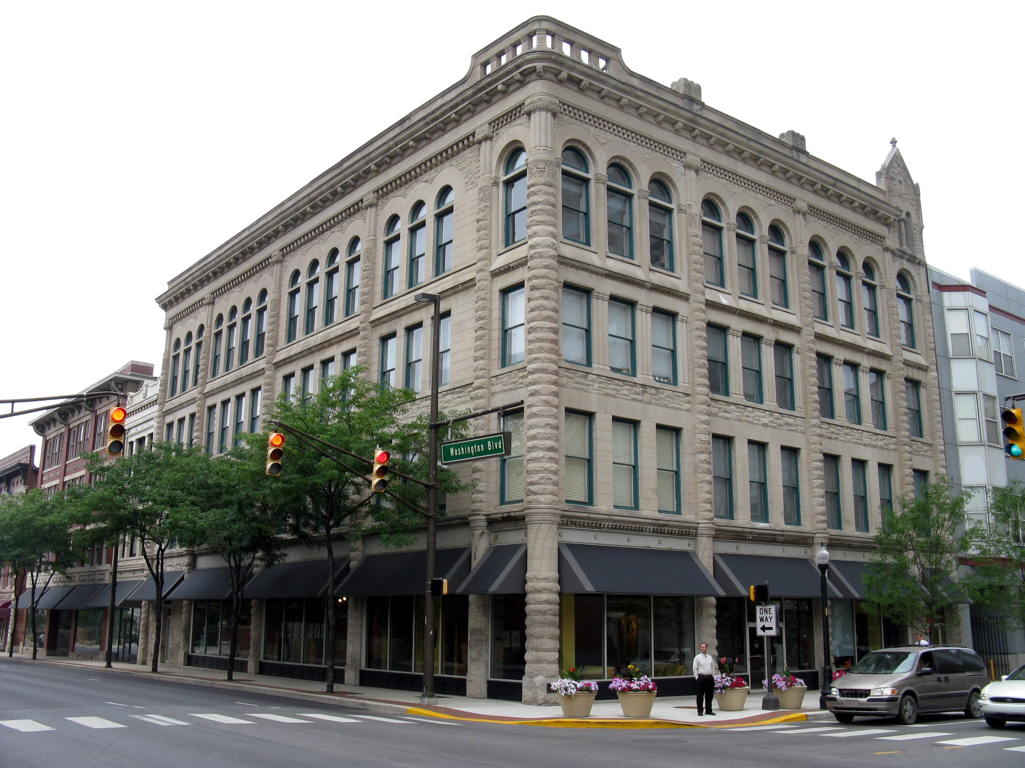 The Historic Schmitz Block in Fort Wayne Indiana was built in 1889 and is listed on the National Register of Historic Places.